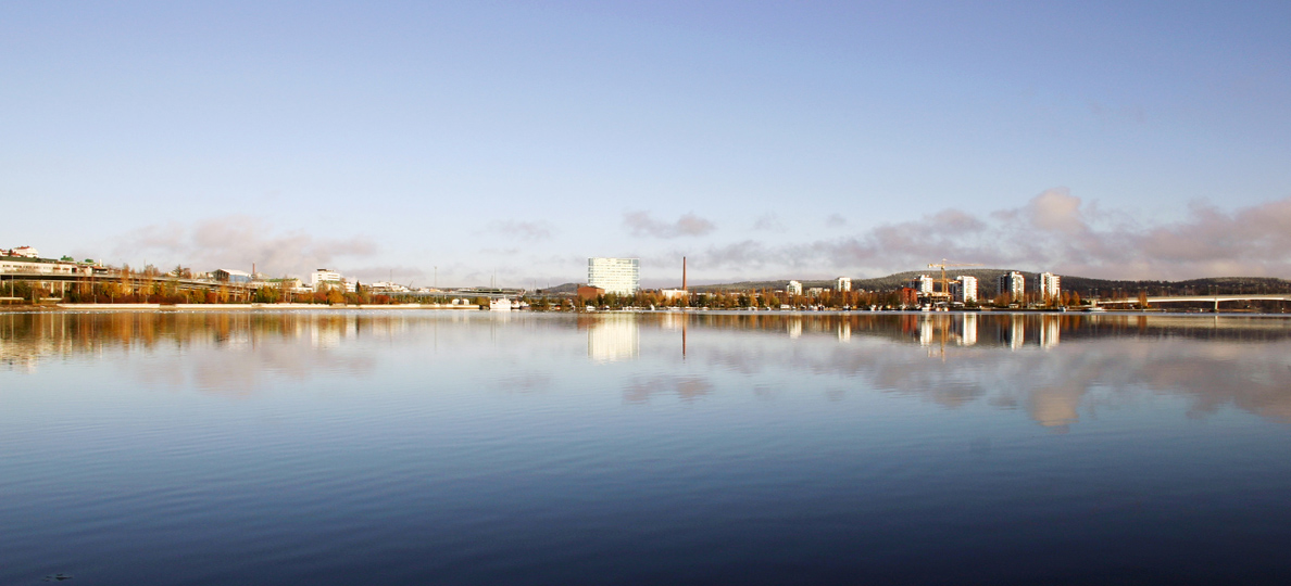 City of Jyväskylä, Finland. Lake is "Jyväsjärvi". Big building in the middle is "Innova-tower". Photo by Mikael Korpela.